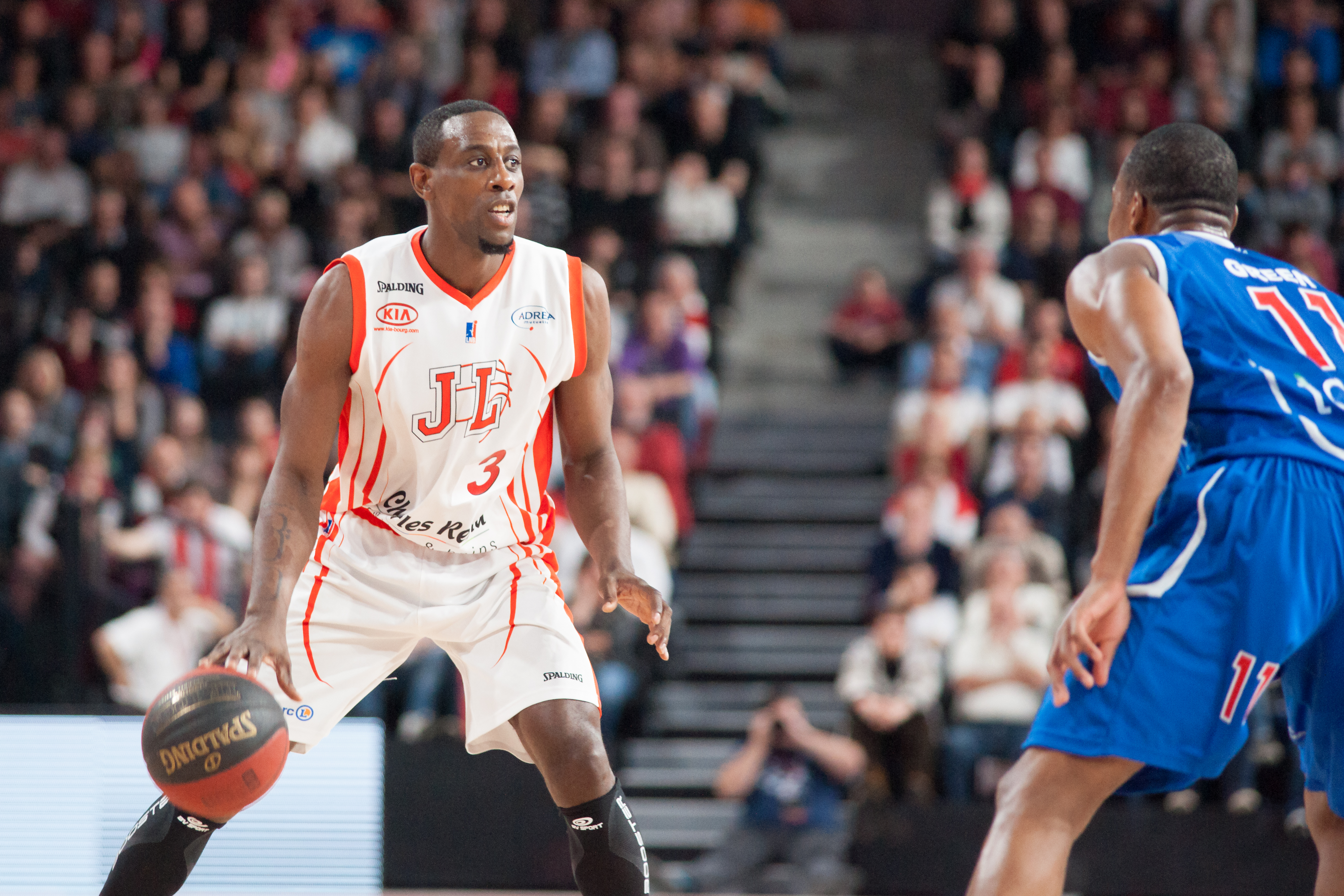 Bourg-en-Bresse vs. Paris-Levallois, 15th November 2014